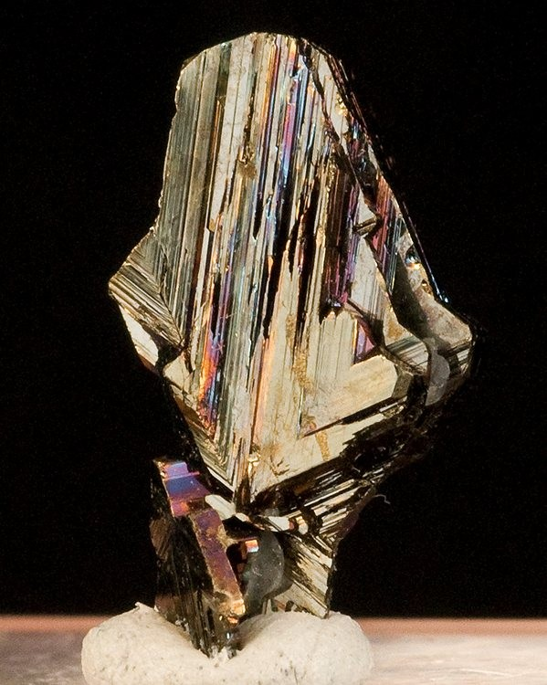 Cubanite Locality: Henderson No. 2 mine, Chibougamau, Nord-du-Québec, Québec, Canada (Locality at ) Size: 1.7 x 1.0 x 0.7 cm. A fine thumbnail of an iridescent and highly lustrous brass-yellow cubanite crystal from the Henderson #2 Mine at Chibougamau, Quebec. The blocky crystal features the classic six-ling twinning and striations common to cubanite crystals and is nicely accented by a smaller cubanite at the base. Classic and outstanding material.